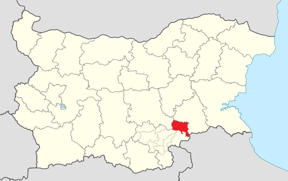 Location map of Topolovgrad Municipality within Bulgaria and Haskovo Province